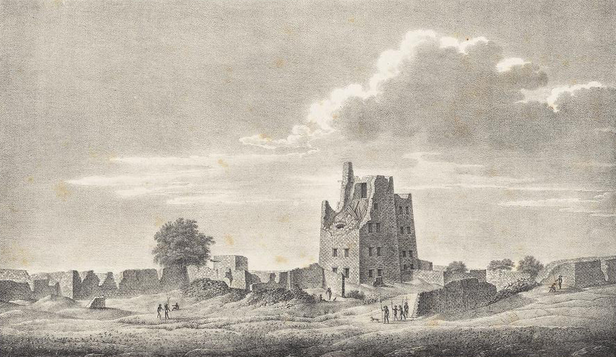 The ruined palace of Sennar at the time of Ottoman conquest (1821).